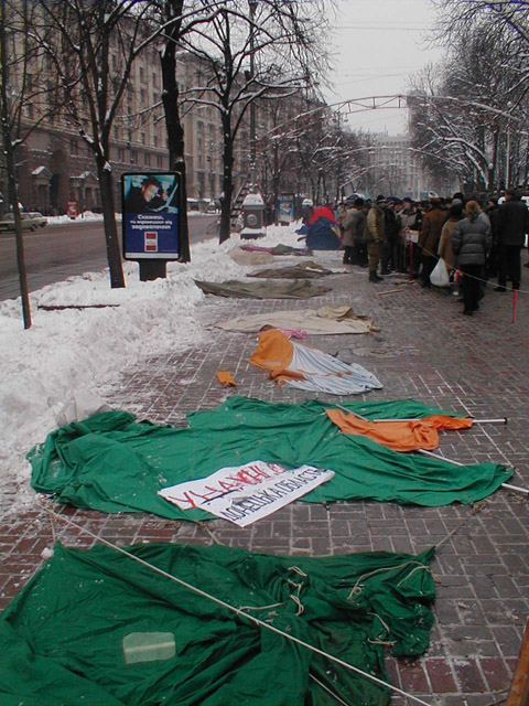 Tents of participants of Ukraine without Kuchma campaign destroyed on 6 February 2001